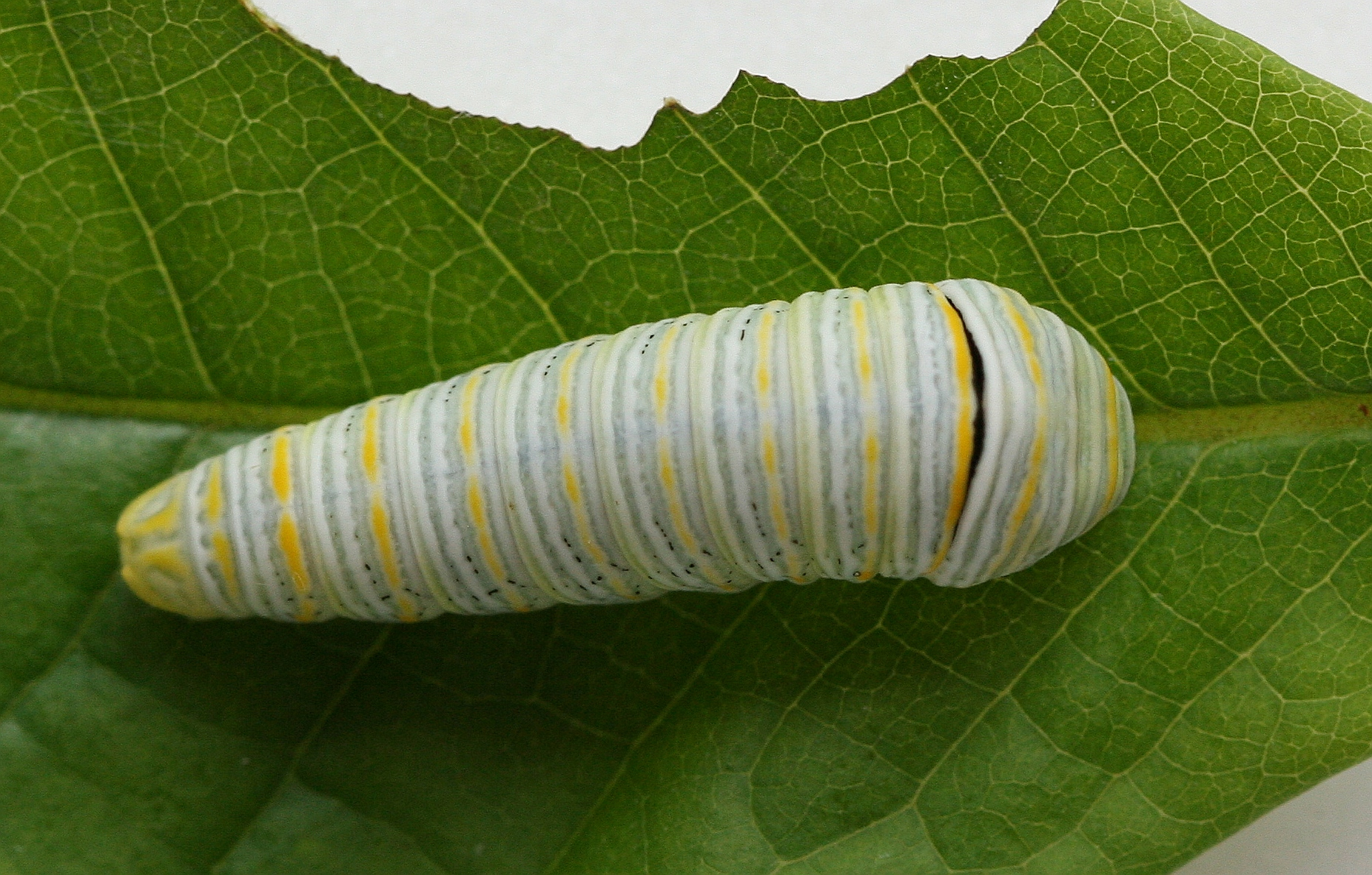 A Zebra Swallowtail larva (Eurytides marcellus)